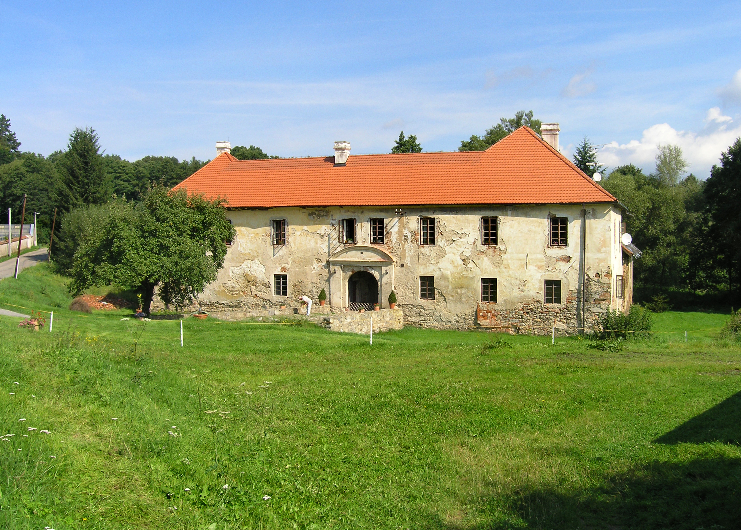 Old castle in Jemniště, part of Postupice village, Czech Republic